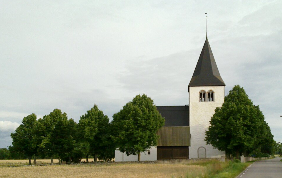 Church of Akebäck, Gotland, Sweden viewed from the north